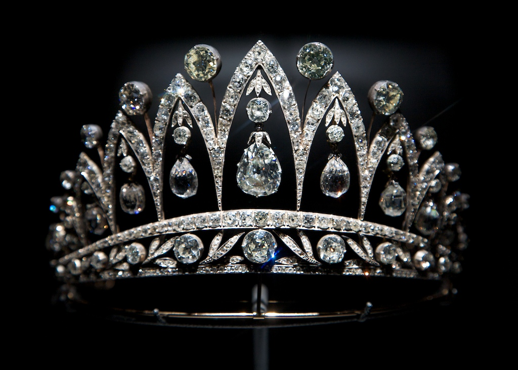 Fabrege: Imperial Jeweler to the Tsars exhibit Houston Museum of Natural Science